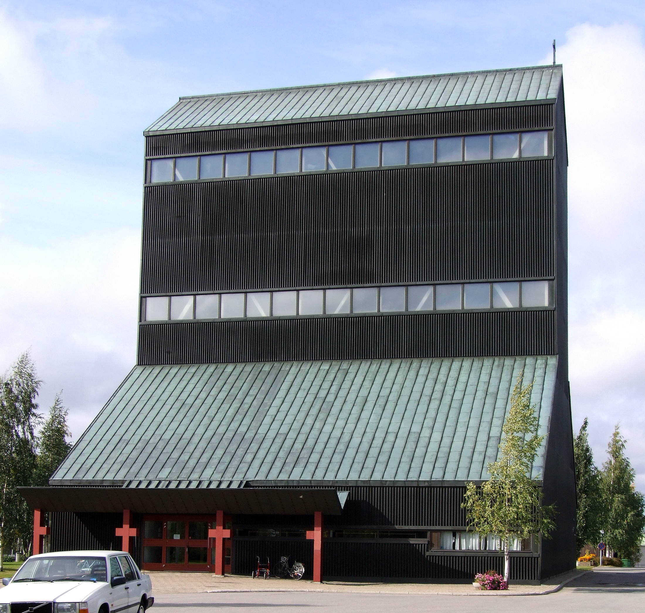 The church of Haparanda was designed by Swedish architect Bengt Larsson of Swedish architect firm ELLT and it was completed in 1967.